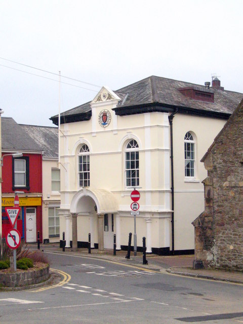 Saltash Guildhall Dating from the mid C18th and Grade II listed. The ground floor was originally open, with the upper floors supported on granite doric columns, some of which are visible on the front elevation here.